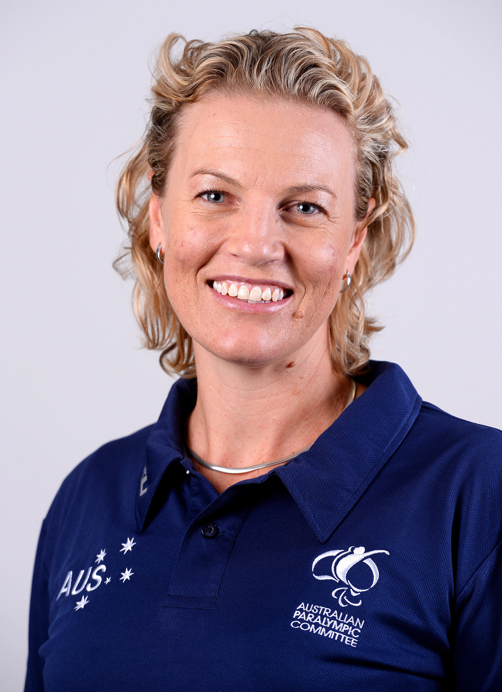 Portrait photograph of Lisa Martin taken at team processing session for shadow members of 2016 Australian Paralympic team